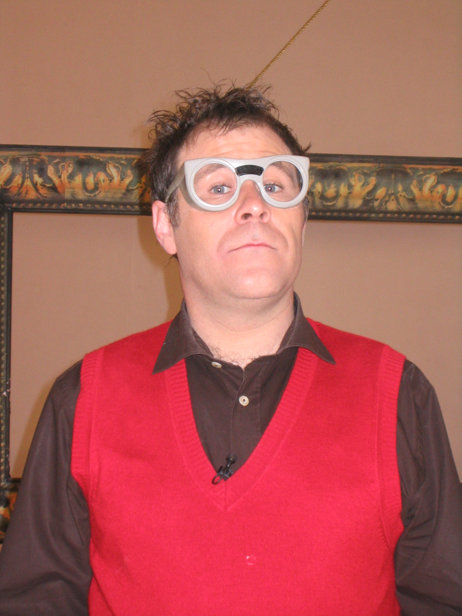 Iñigo Ibarra Lizundia, Ander Lipus. Basque actor.